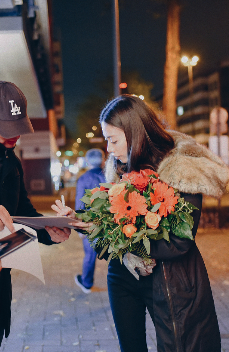 Danelle Sandoval in Cologne Germany